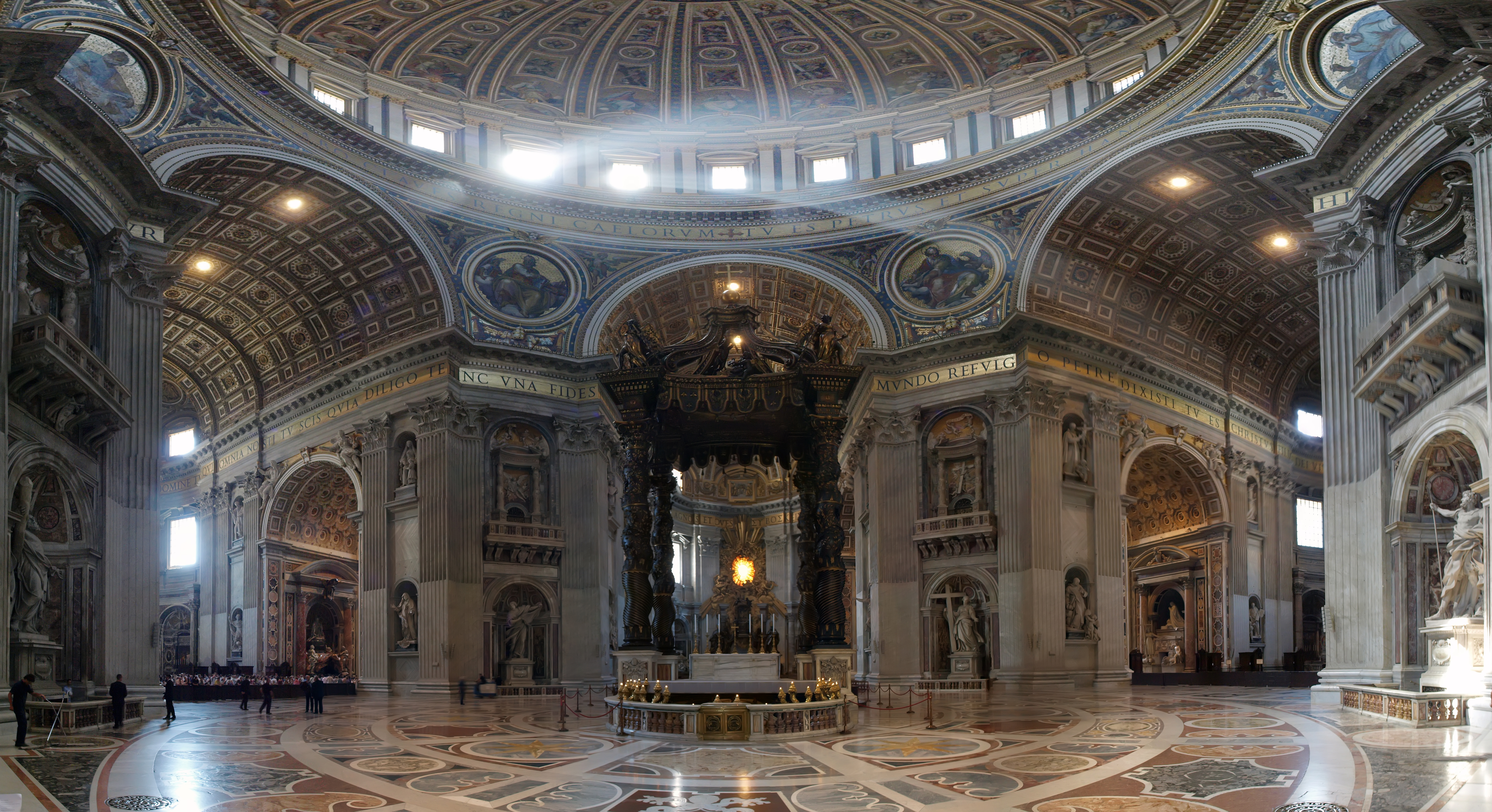 Wide angle View of the altar inside St. Peter's Basilica